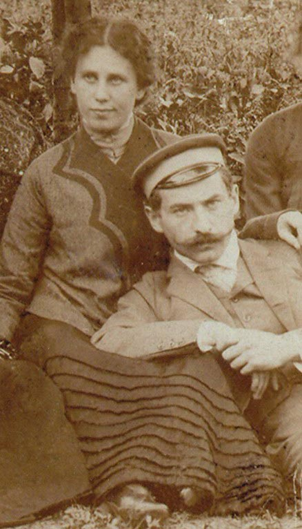 Dr. Stanislaw Krzyzanowski